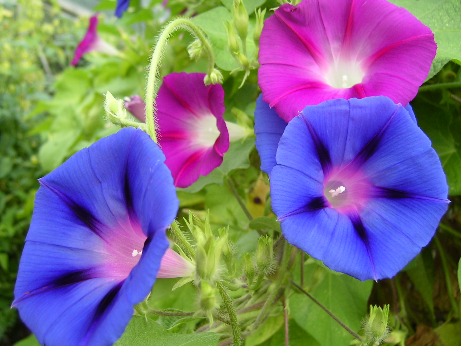 Morning glory